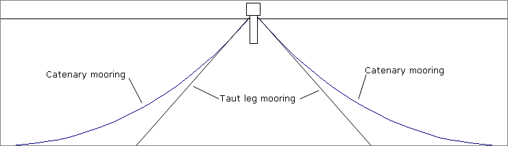 Catenary versus Tautleg